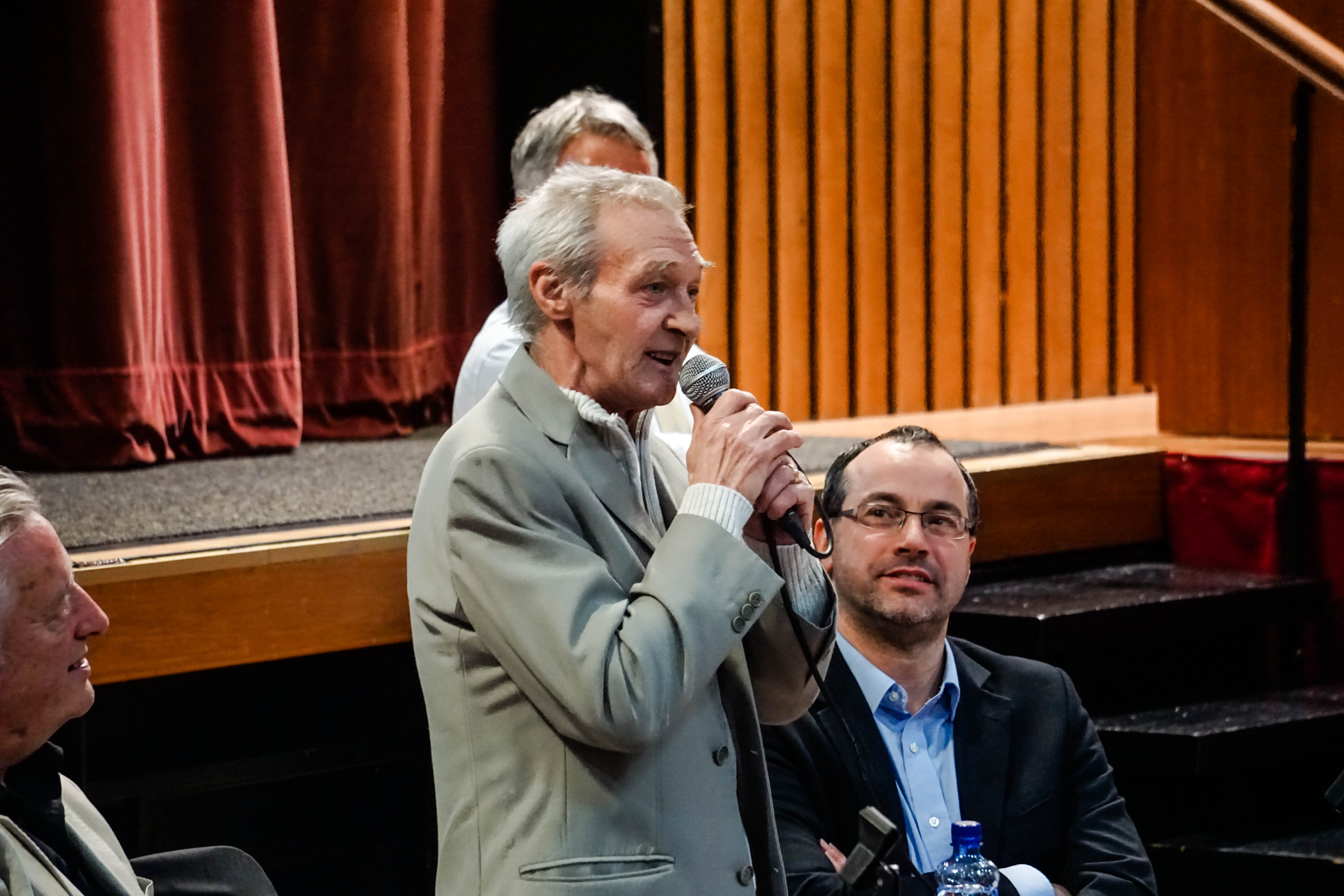 Paddy Hill from the Birmingham Six at the first Gerry Conlon Memorial Lecture at St. Mary’s College Belfast.